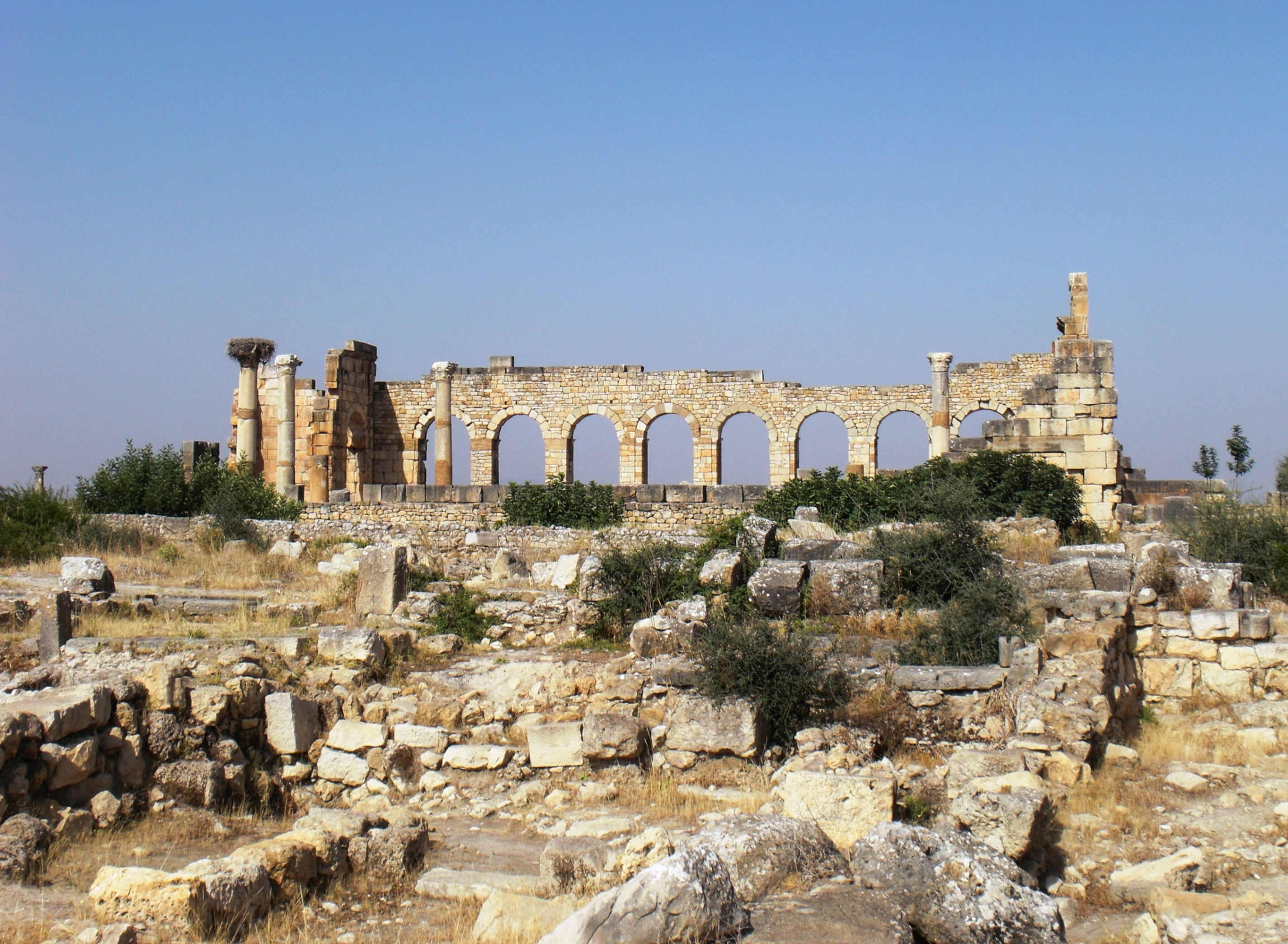 The basilica of Volubilis, Morocco.